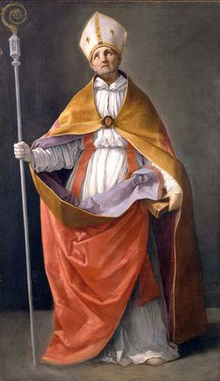 Portrait of Sant st. Andrew Corsini